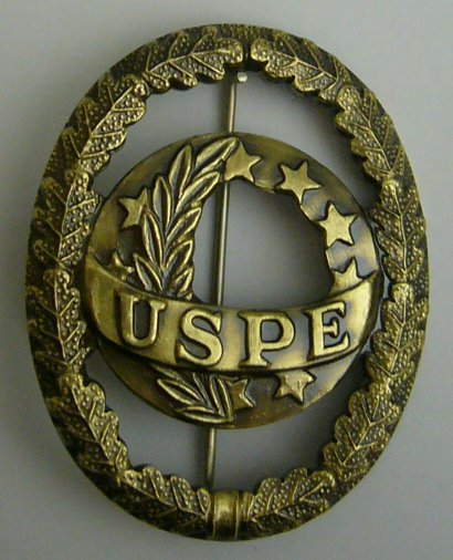 EPLA - European Medal of Police Skills, issued by the Union Sportive des Polices d’Europe (USPE).